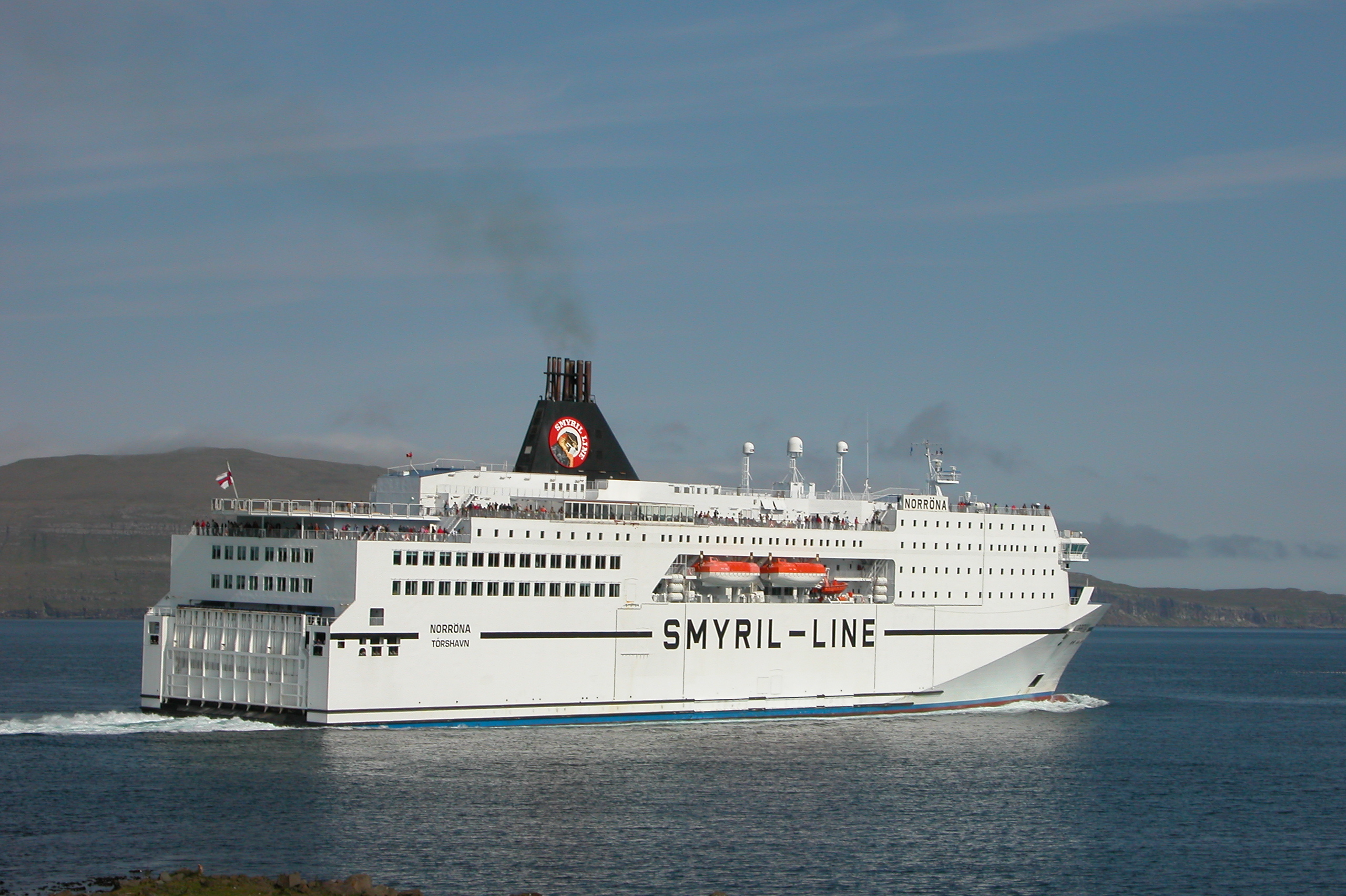 The ferry Norröna. Denmark-Faroe Island-Iceland IMO Number: 9227390 MMSI Number: 231200000 Callsign: OZ2040 Length: 166 m Beam: 34 m